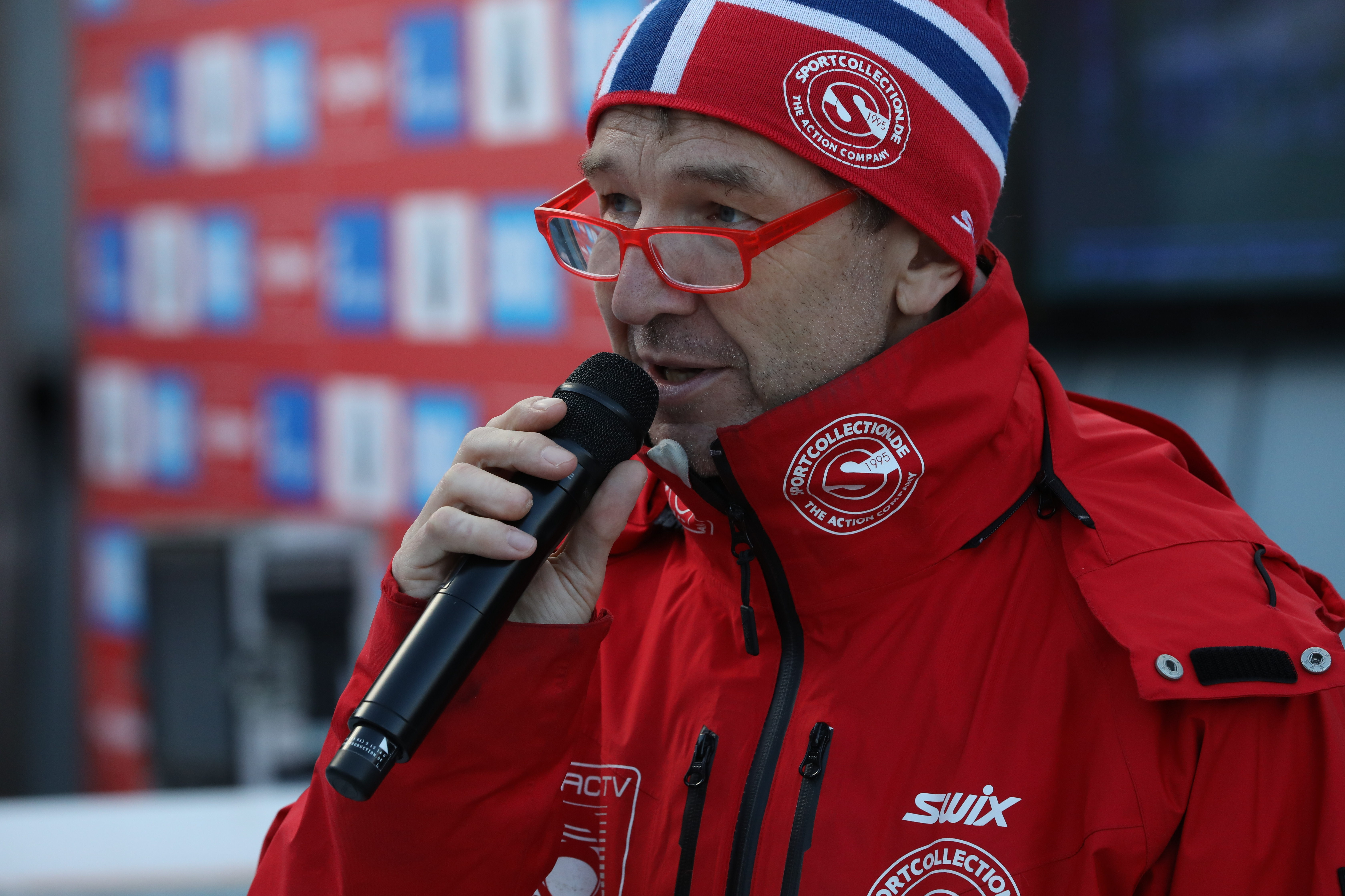 Ron Ringguth